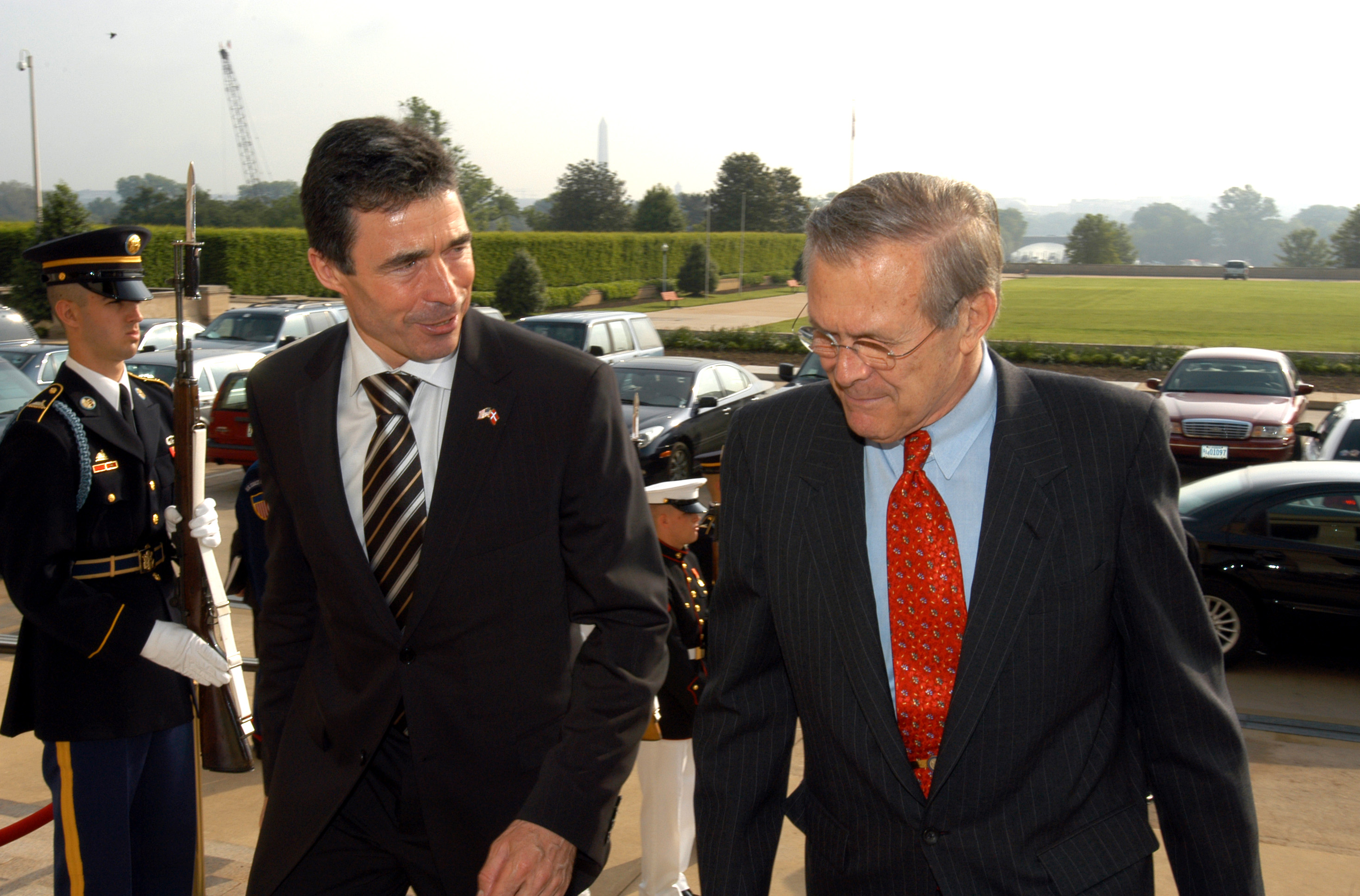 Secretary of Defense Donald H. Rumsfeld (right) escorts Danish Prime Minister Anders Fogh Rasmussen (left) into the Pentagon on May 8, 2003. The two men will meet to discuss a range of bilateral security issues.